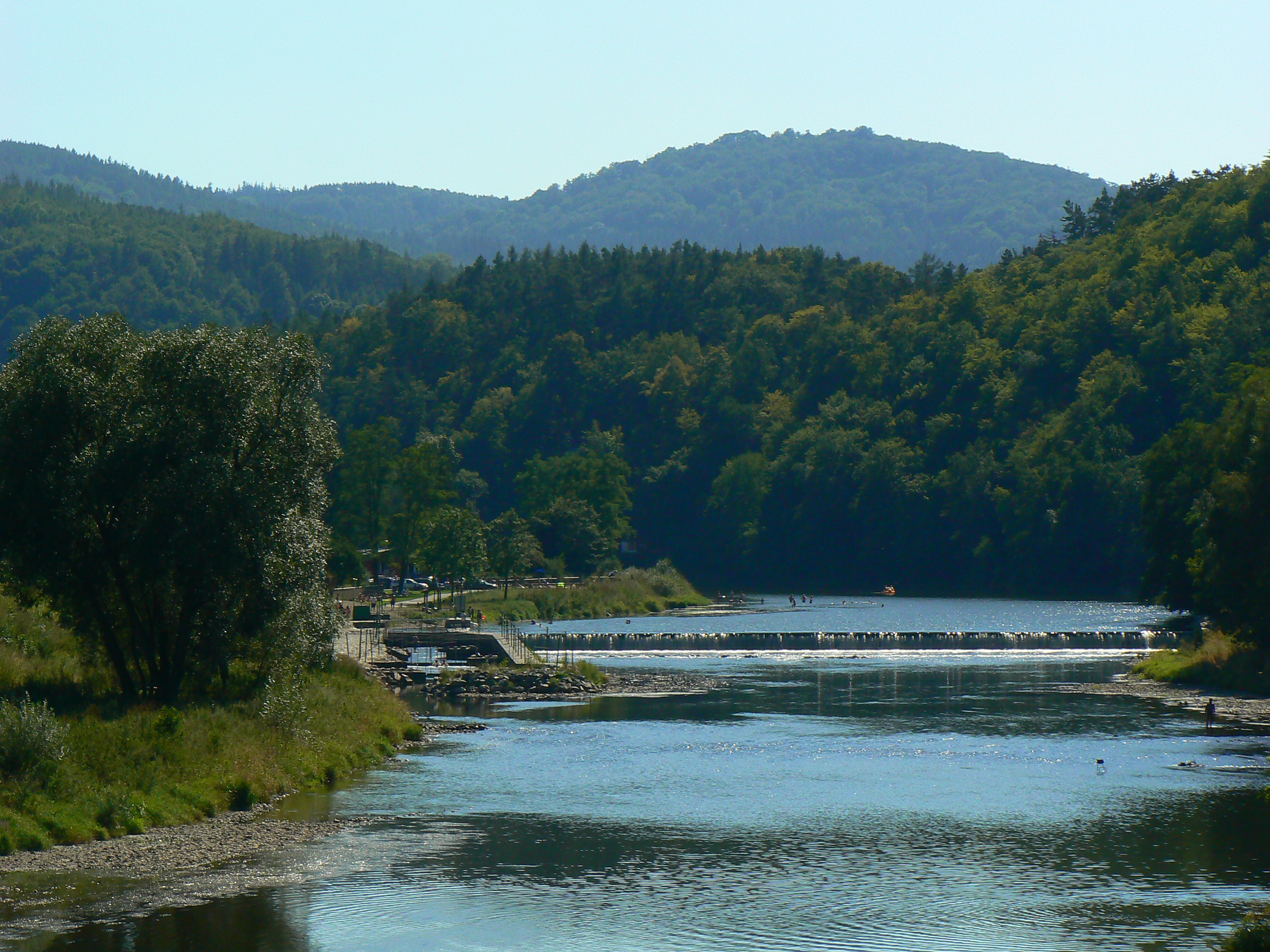 Roztoky - a weir on the Berounka river, CZ